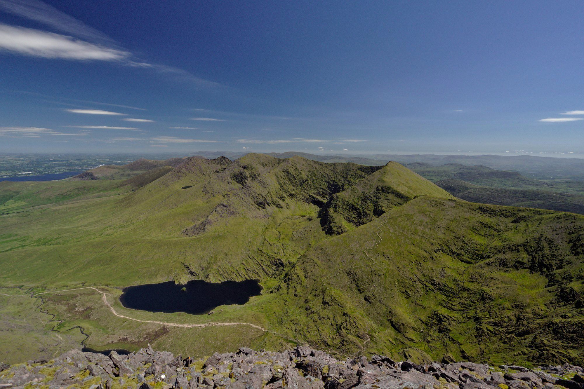 Photograph from the summit of Carrauntoohil showing the full eastern ridge section of the MacGillycuddy's Reeks. Cnoc na Toinne is the big ridge in the right near ground (the Zig-Zag track is visible on its shoulder); behind is Cnoc an Chuillinn and its long ridge to Maolan Bui, and its ridge to the highest peak in this section, Cnoc na Peiste. To the left and behind Cnoc na Peiste is The Big Gun (dark pyramid), and its ridge to Cruach Mhor, the final major peak.